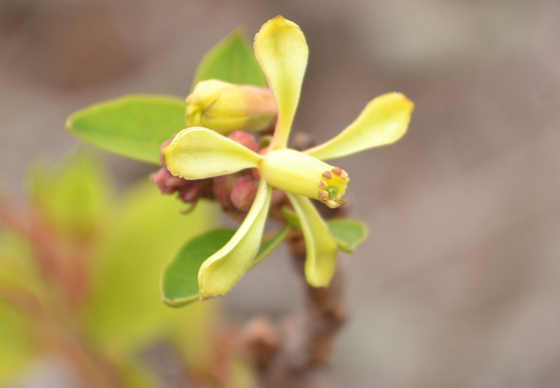 Chikrasi is a deciduous, medium-sized, sometimes fairly large tree up to 30 (max. 40) m tall. Chikrasi is a valuable multipurpose tree genus, distributed mainly in South and Southeast Asia. The timber is highly prized for high-grade cabinet work, decorative panelling, furniture, musical instruments, interior joinery such as doors, windows and light flooring, sporting goods and for carving. It is also used for railway sleepers, ship and boat building, packing boxes and general construction. Flowers contain a red and yellow dye, bark and leaves contain commercial gums and tannins and the astringent bark has medicinal uses. Leaves are pinnate, but with smooth margin, unlike neem. It has neem-like cream colored flowers occuring in bunches. Origin : India, Indo-China & Malay Peninsula. Photo taken in Arsikere, Karnataka